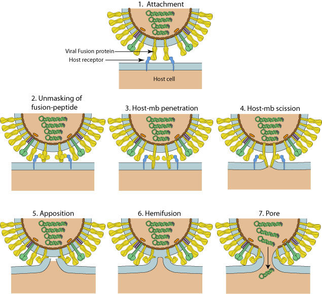 Paramyxovirus fusion mechanism according to the “viral fusion pore” model of Lee K